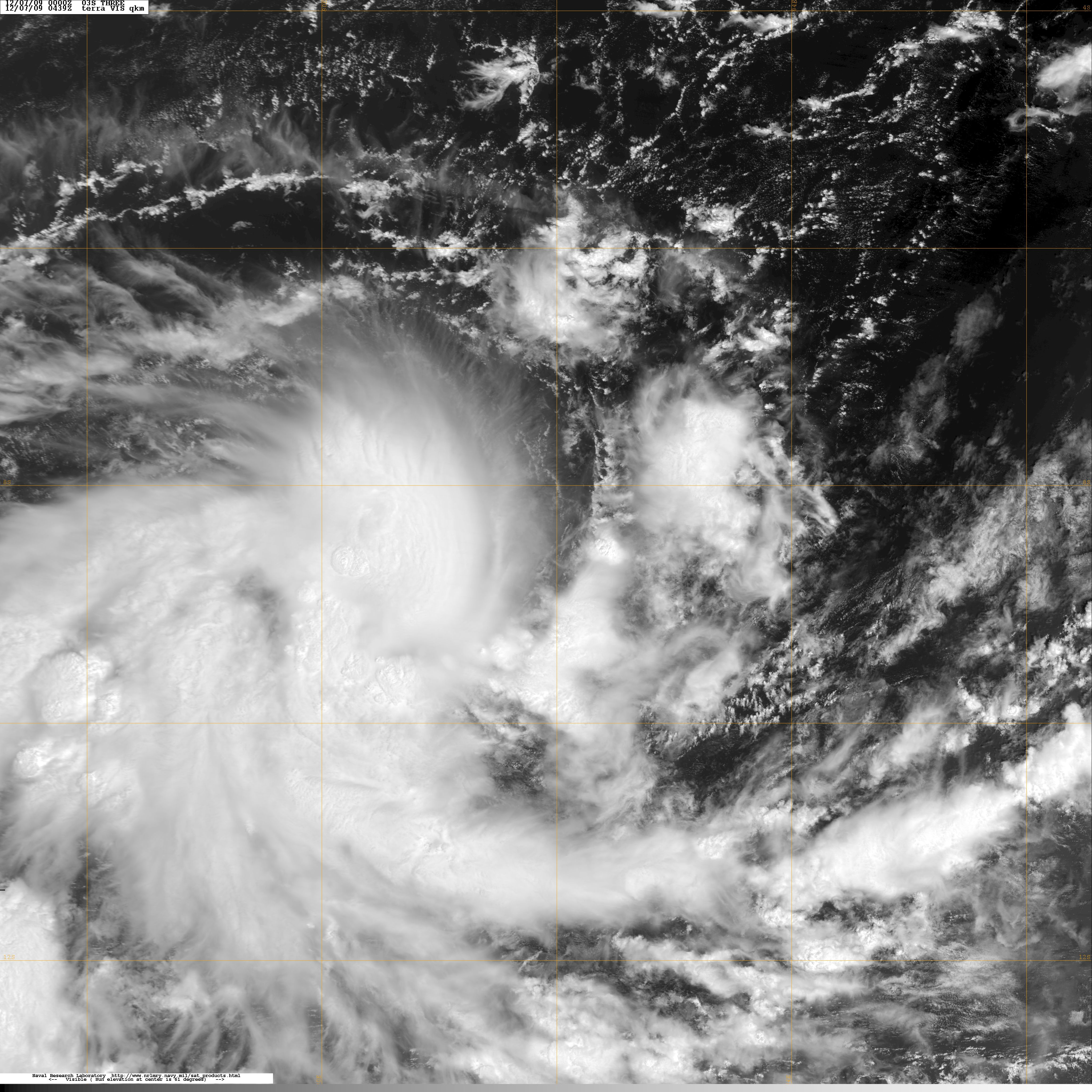 Tropical Storm Cleo 650 miles east of Diego Garcia on 7 December 2009. Visible light photograph from TERRA satellite.